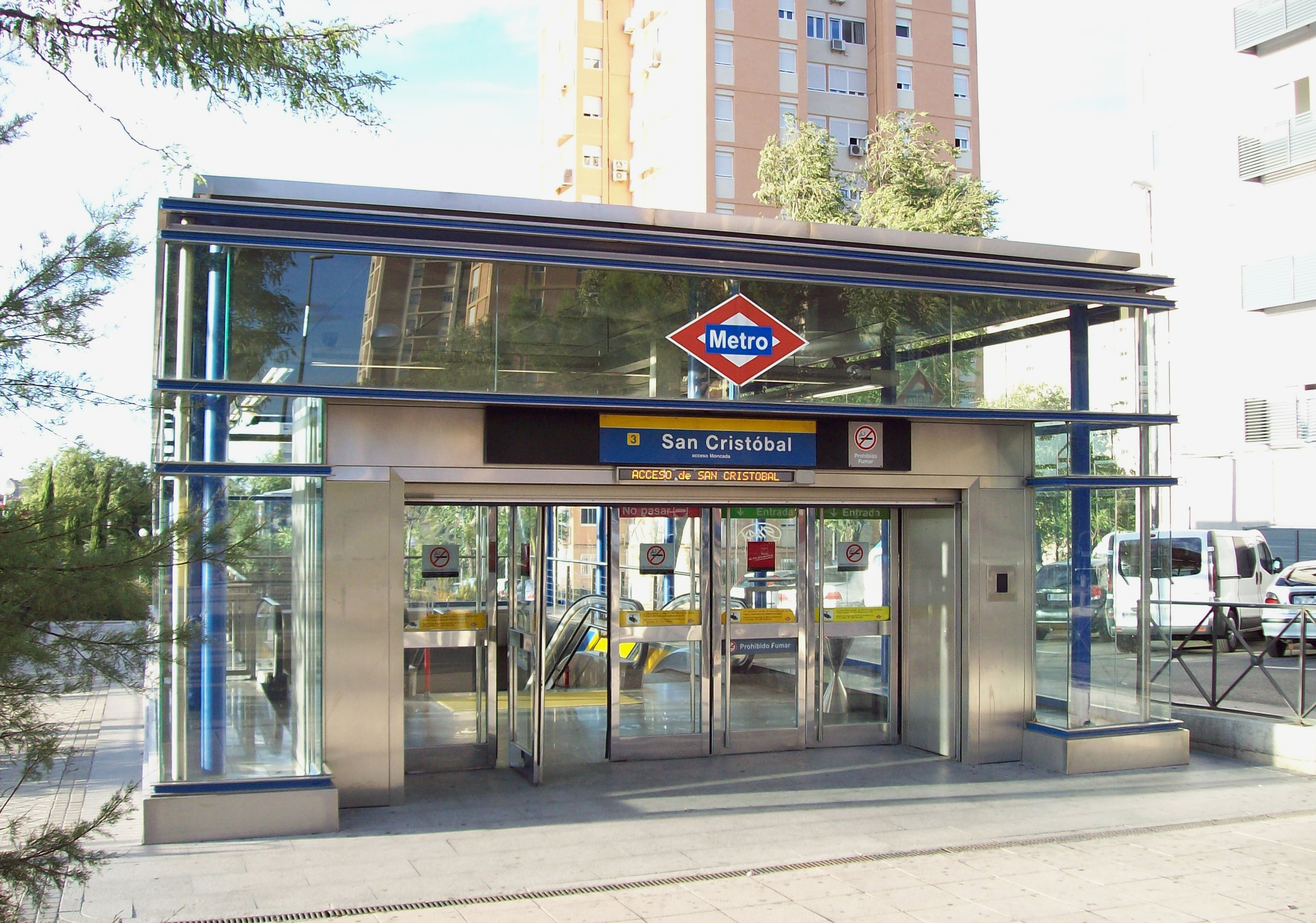 Entrance of San Cristóbal metro station in Villaverde district in Madrid (Spain).